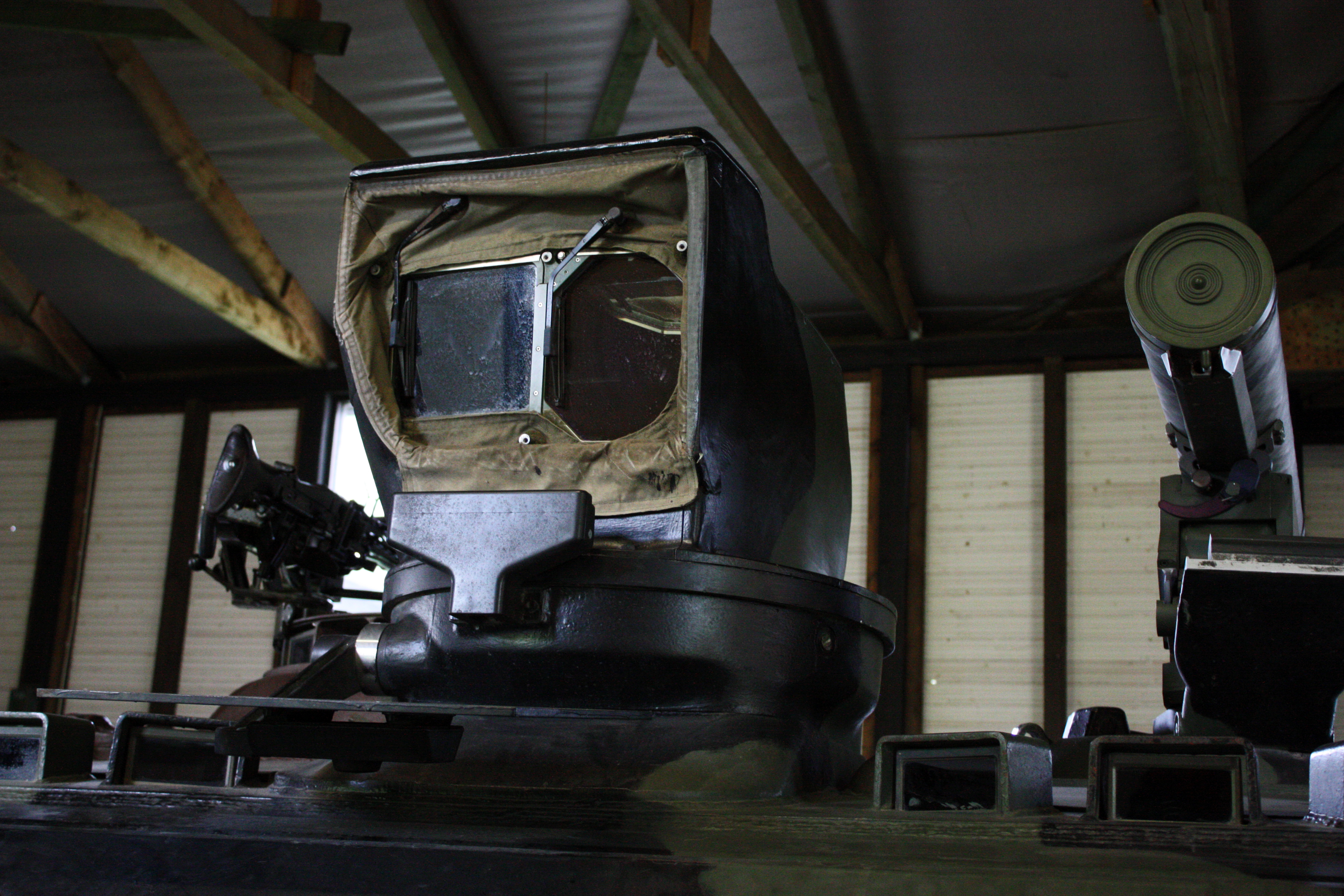 German Tank Museum